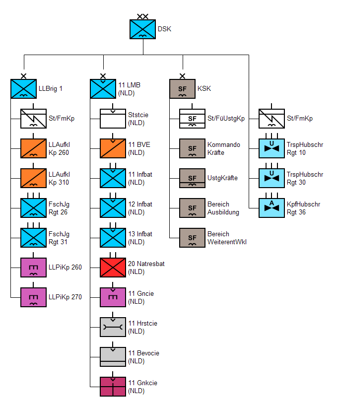 Organizational chart of the Division Schnelle Kräfte (Bundeswehr).